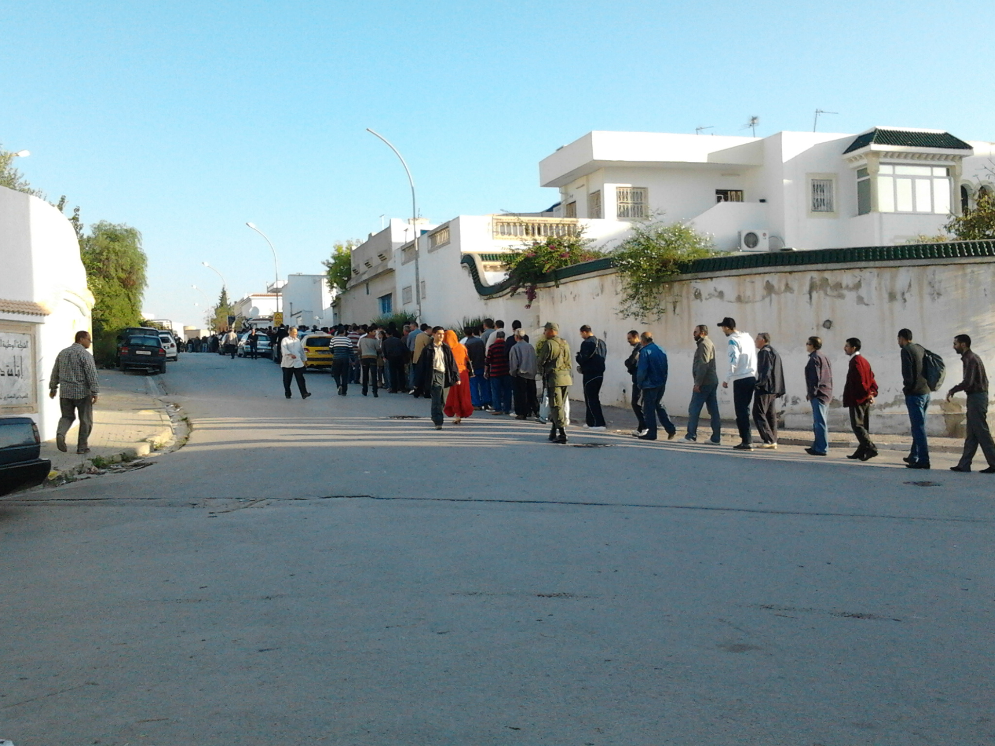 wainting line at El mourouj 1. The elections of the tunisian constituent assembly (23/10/2012)